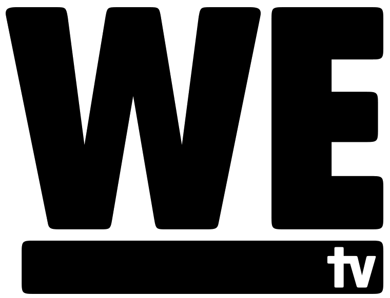 latest Logo of WEtv